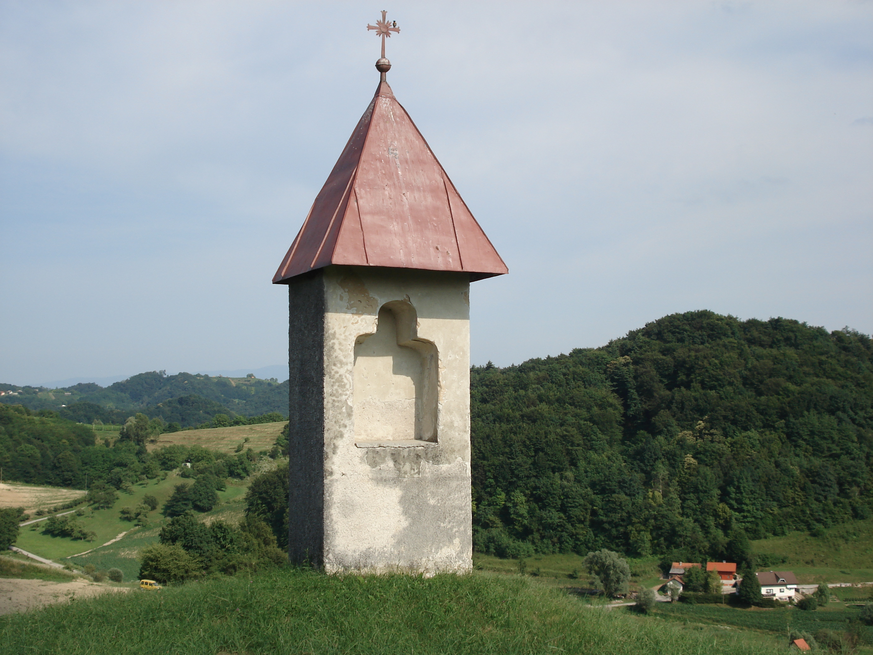 Plague column in Pišece, Slovenia.